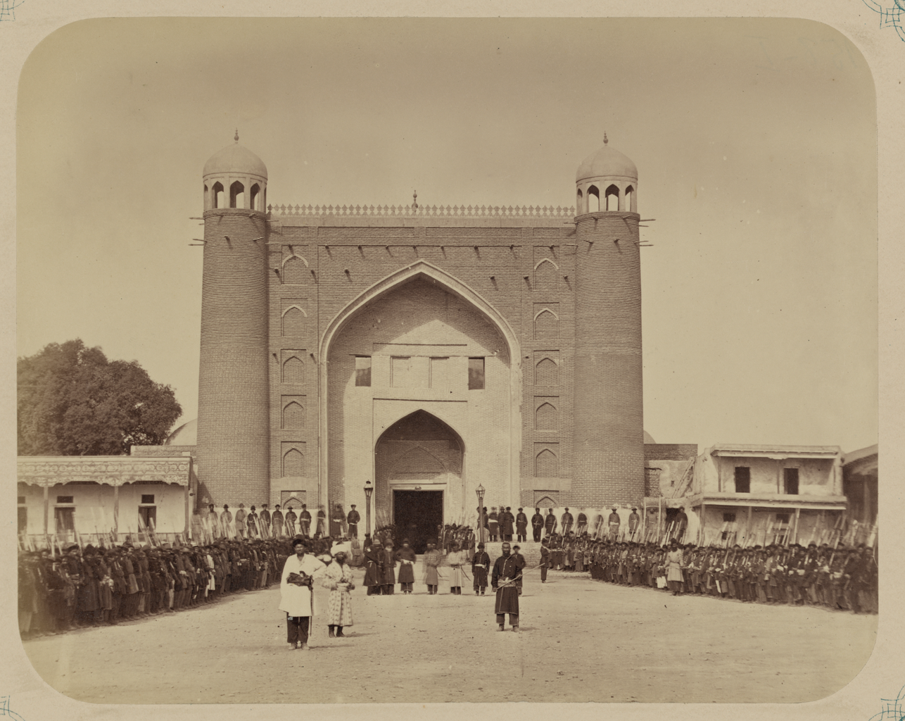 This photograph is from the ethnographical part of Turkestan Album, a comprehensive visual survey of Central Asia undertaken after imperial Russia assumed control of the region in the 1860s. Commissioned by General Konstantin Petrovich von Kaufman (1818–82), the first governor-general of Russian Turkestan, the album is in four parts spanning six volumes: “Archaeological Part” (two volumes); “Ethnographic Part” (two volumes); “Trades Part” (one volume); and “Historical Part” (one volume). The principal compiler was Russian Orientalist Aleksandr L. Kun, who was assisted by Nikolai V. Bogaevskii. The album contains some 1,200 photographs, along with architectural plans, watercolor drawings, and maps. The “Ethnographic Part” includes 491 individual photographs on 163 plates. The photographs show individuals representing the different peoples of the region (Plates 1–33); daily life and rituals (Plates 34–91); and views of villages and cities, street vendors, and commercial activities (Plates 92–163). Castles and palaces; Ethnographic photographs; Islamic architecture; Kings and rulers; Photographic surveys; Soldiers; Turkic peoples